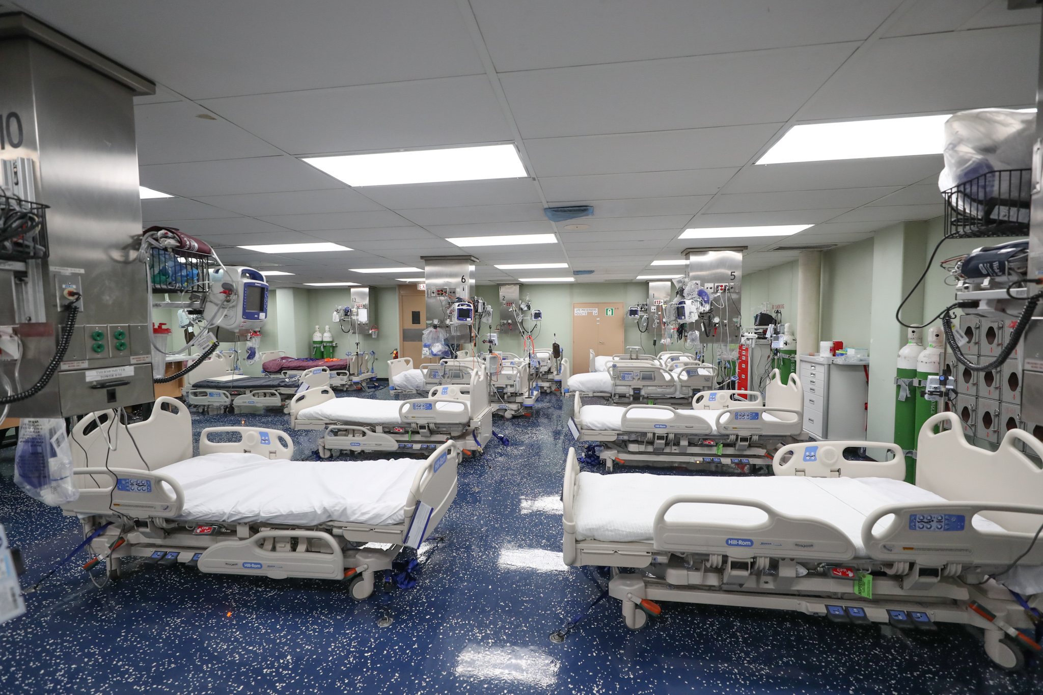 Hospital beds aboard the USNS Comfort while visiting Peru on 5 November 2018